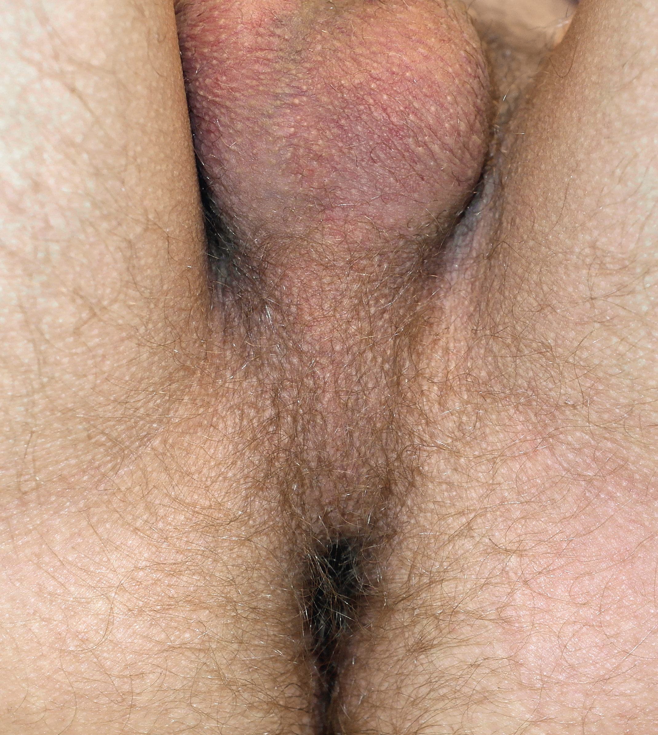 Perineum of a 31 years old Southern European male. Upload upon user request (see Usertalk). Read my comments here: 123GLGL